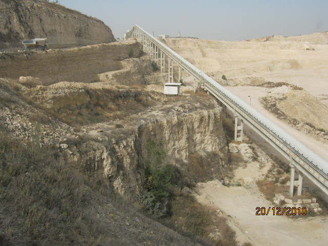 stone conveyor from Quarry - Nesher cement, Ramla, Israel